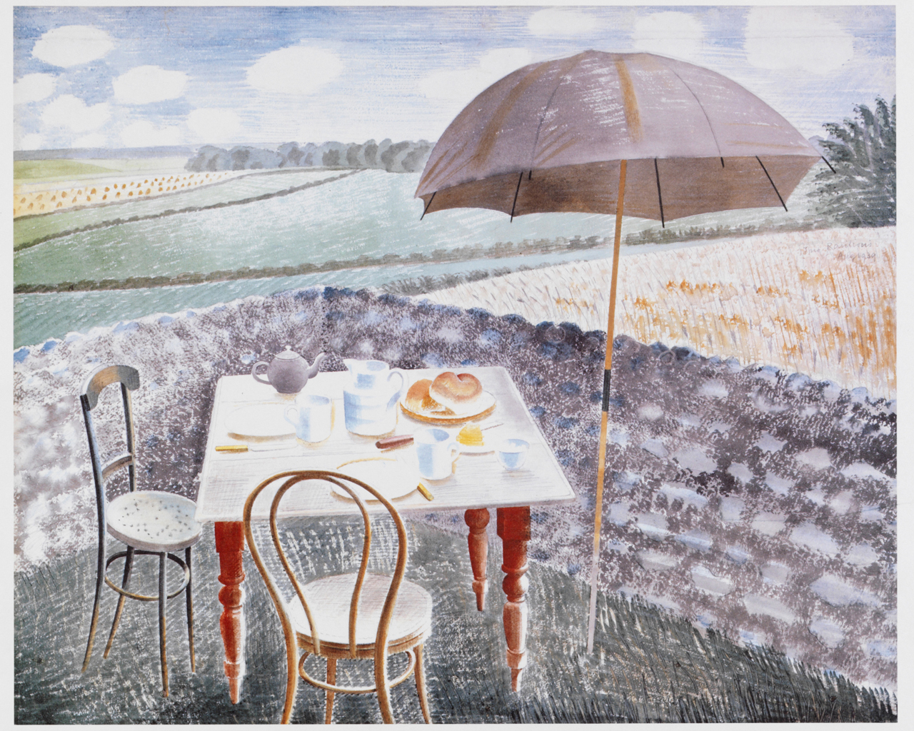 Now at the Fry Art Gallery (accession no. 856). 350 x 430 mm; print reproduction. Furlongs was a cottage on the South Downs, near Glynde and Lewes, which was occupied by Ravilious' friend Peggy Angus.